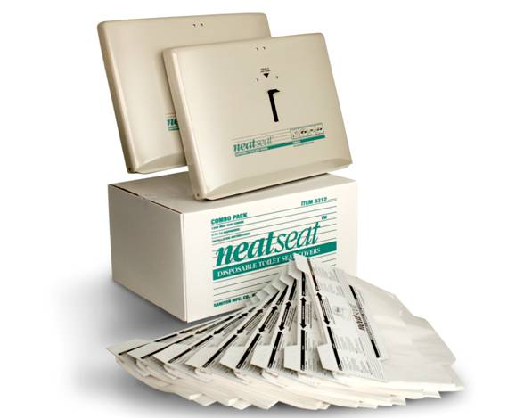 Sanitor's NeatSeat toilet seat covers. These are made from recycled paper and dissolve in water.